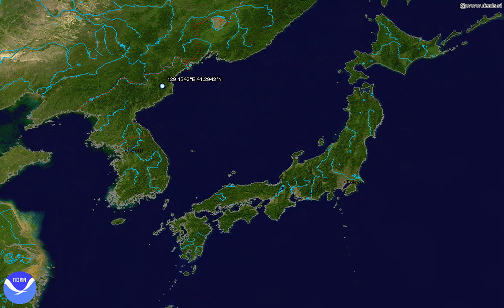 This is an NASA Blue Marble image of the North Korean Nuclear Test, 2006, and was made using JAVA NEXRAD tool.